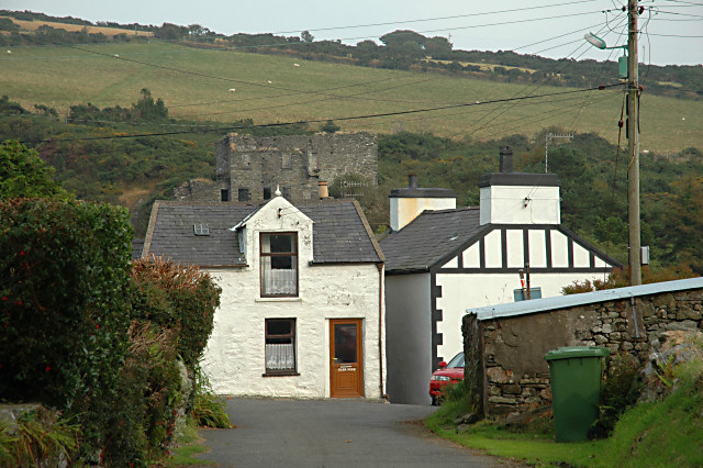 Agneash - Isle of Man. Agneash village is high in the hills above Laxey